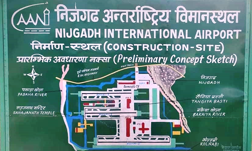 Nijgadh International Airport Preliminary Concept